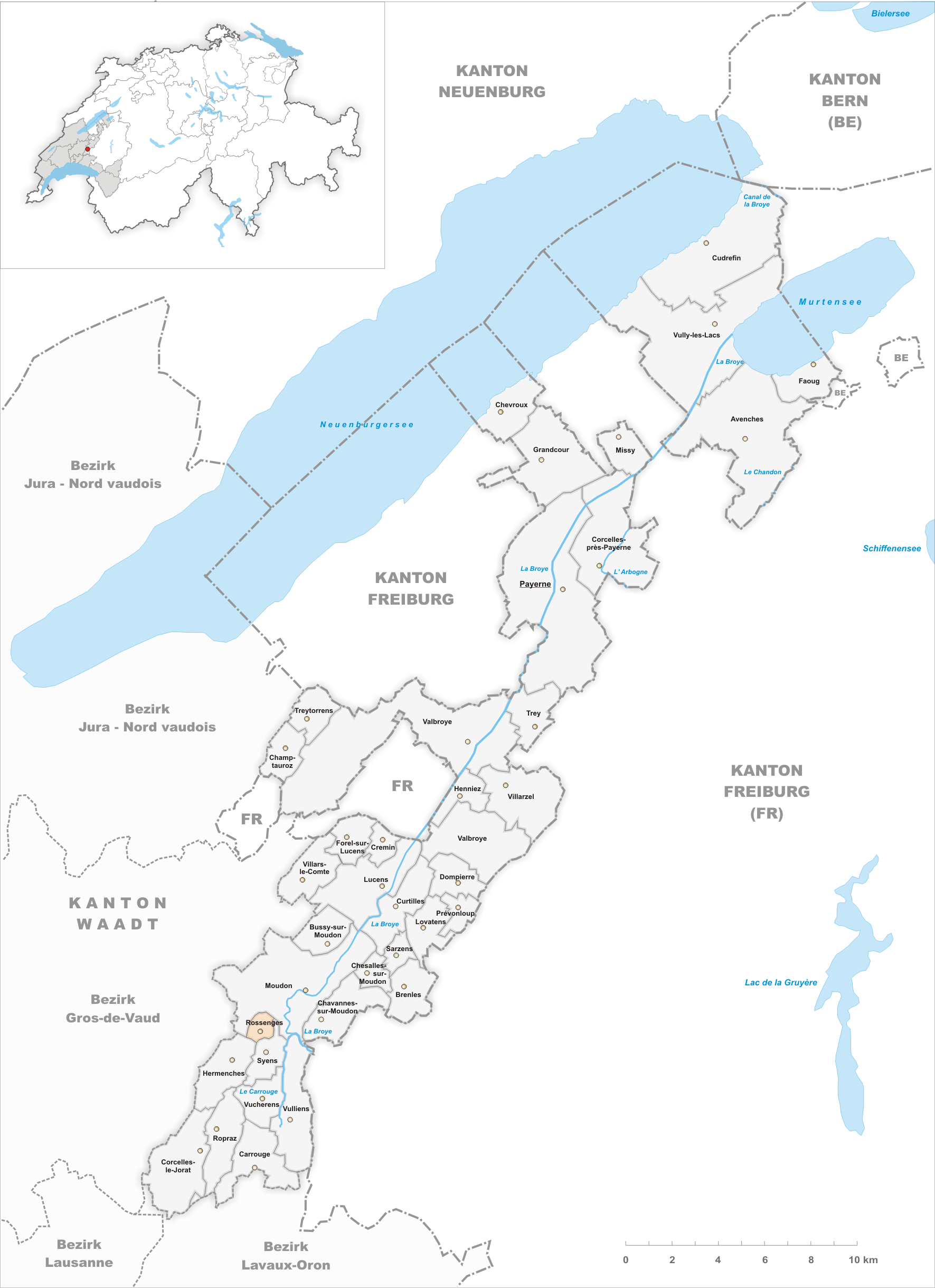 Municipality Rossenges